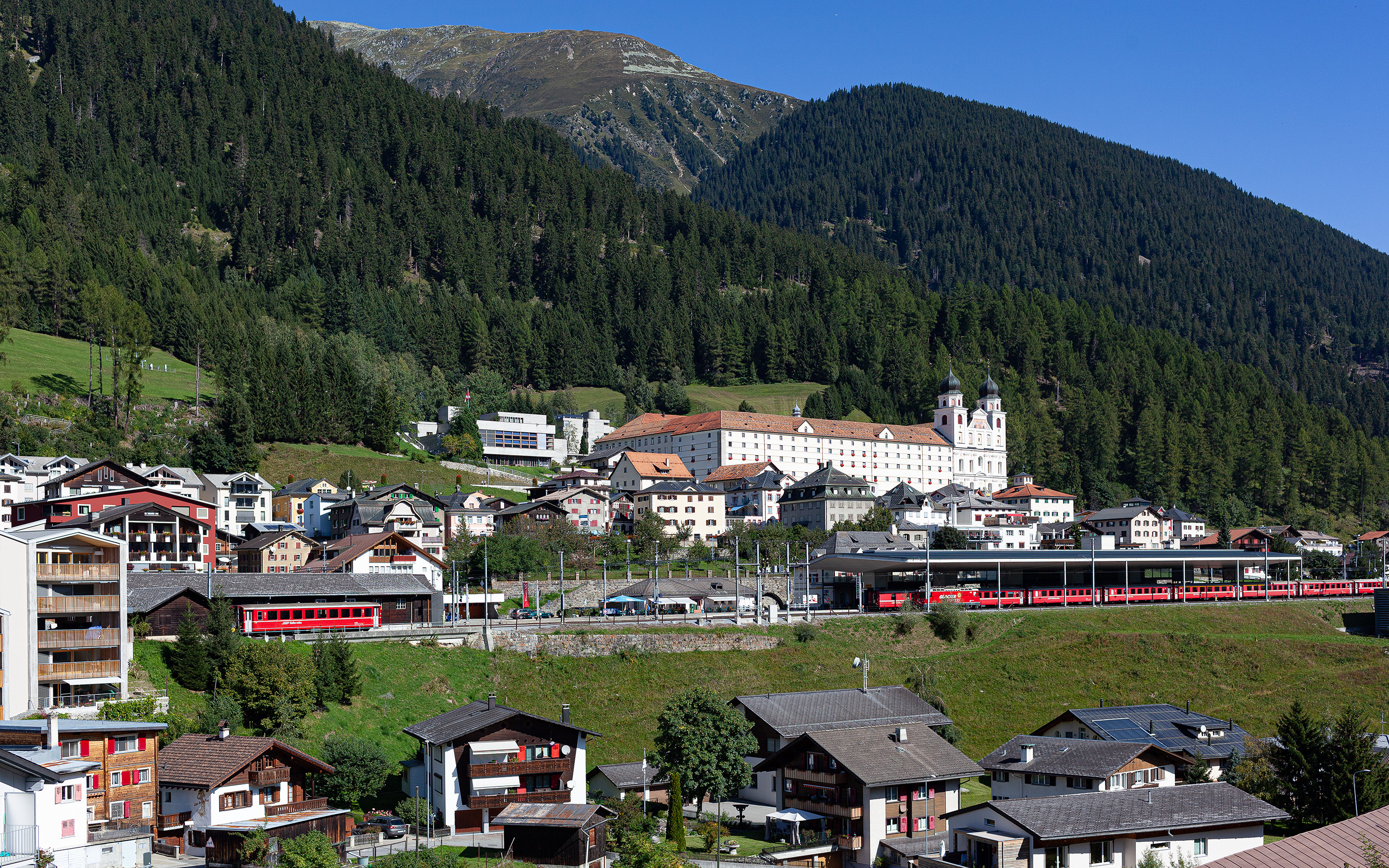 Benedictine monastery in the village of Disentis/Mustér, canton of Graubünden, Switzerland. Photo taken 15.09.2019.